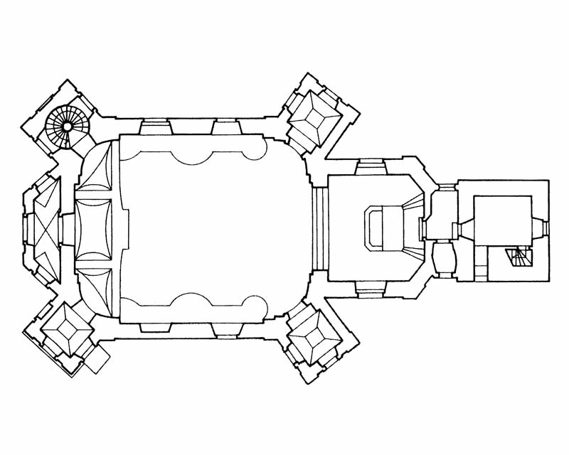 Ground plan of Church of the Visitation of Virgin Mary in Obyčtov by Jan Santini Aichel